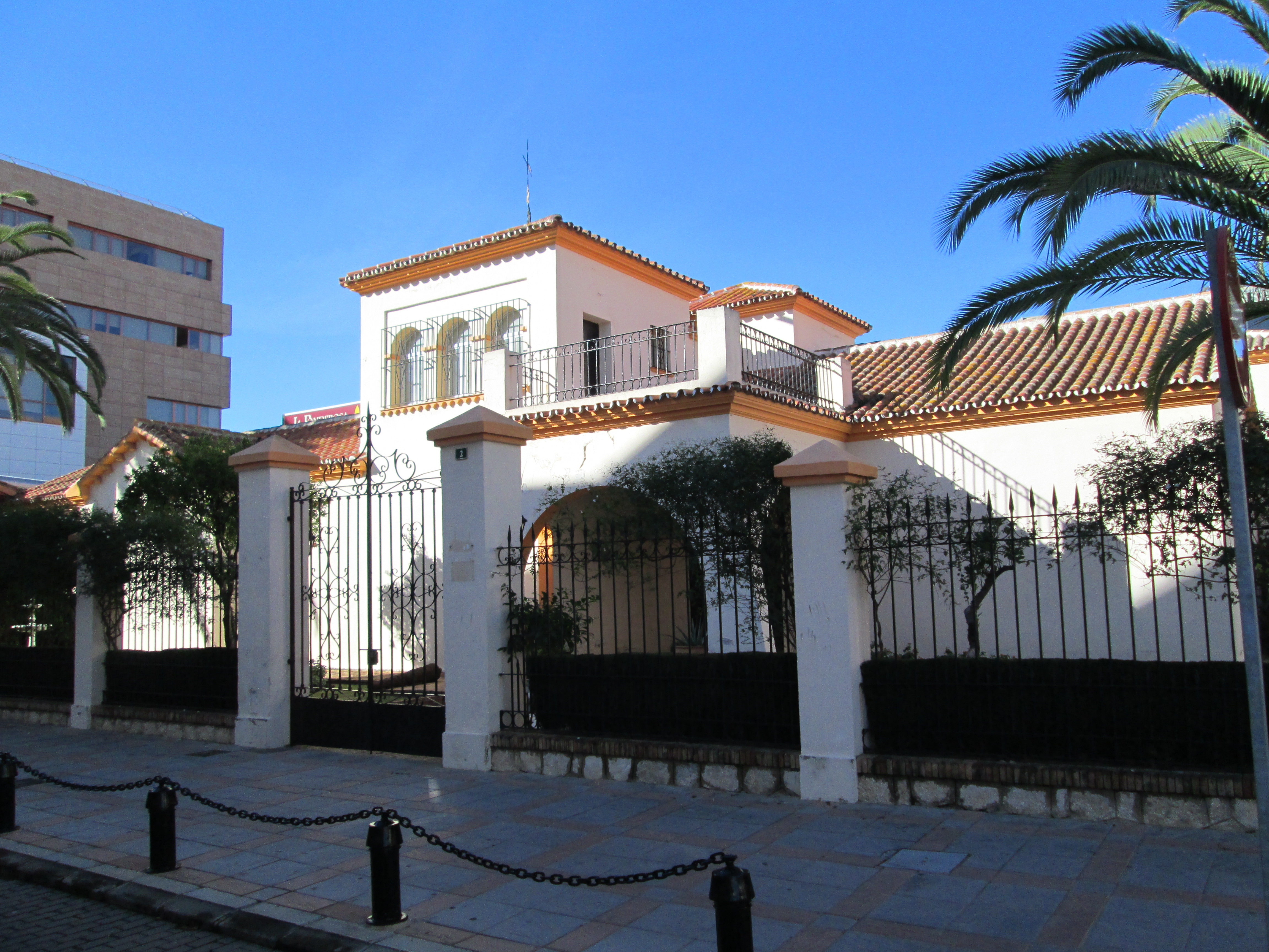 Fuengirola